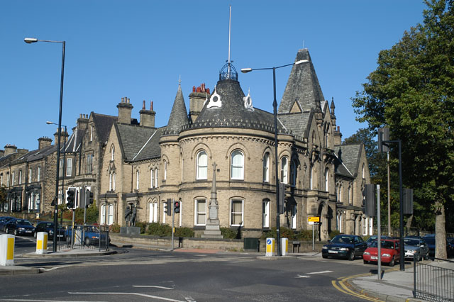 National Union of Mineworkers Hall The National Union of Mineworker's Hall on Huddersfield Road. Note the statue to the left of the stone monument to commemorate the people involved in the industry.